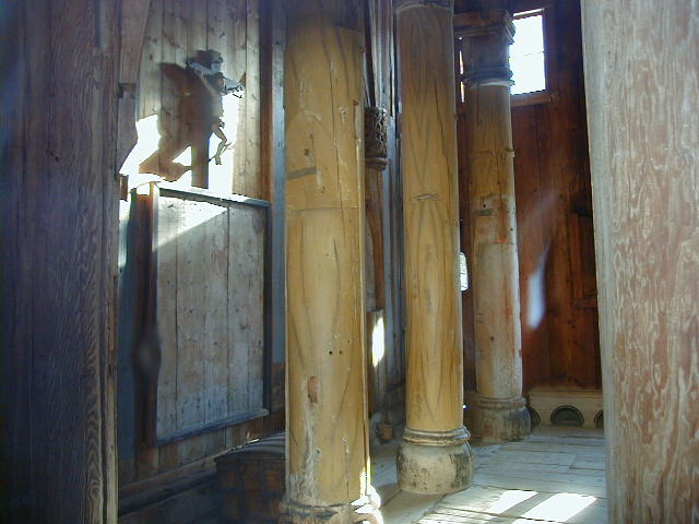 Interior from Torpo Stave Church of Norway